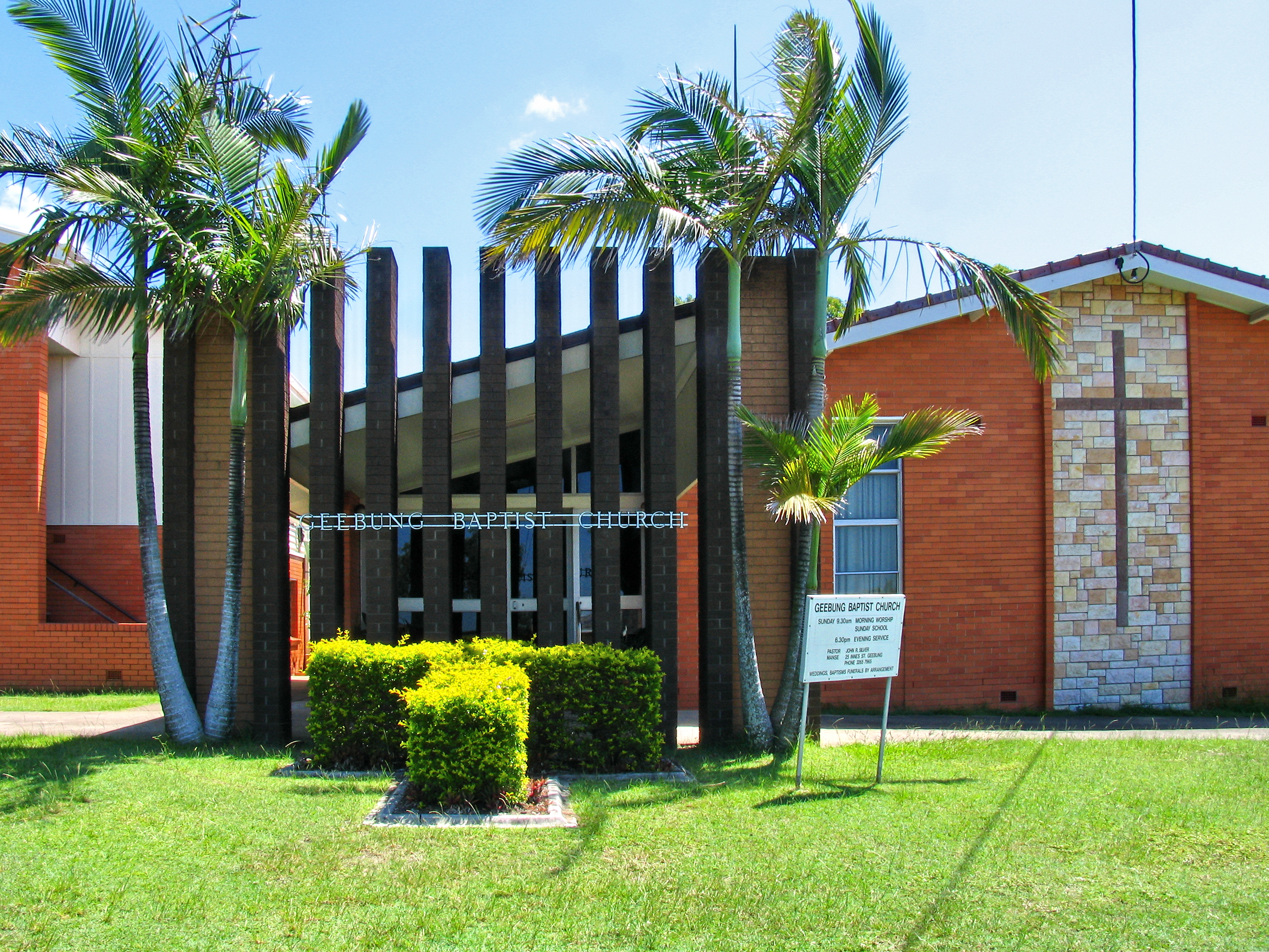 Photo of the Geebung Baptist Church.